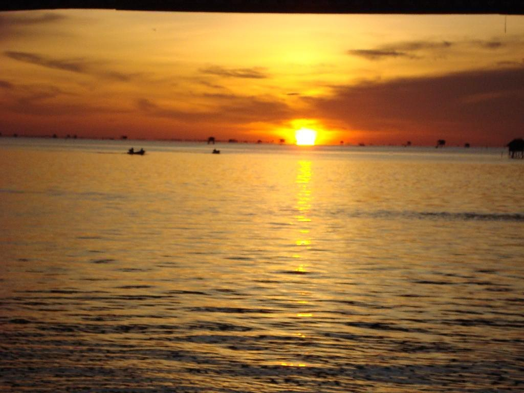 จุดชมวิวพระอาทิตย์ตก